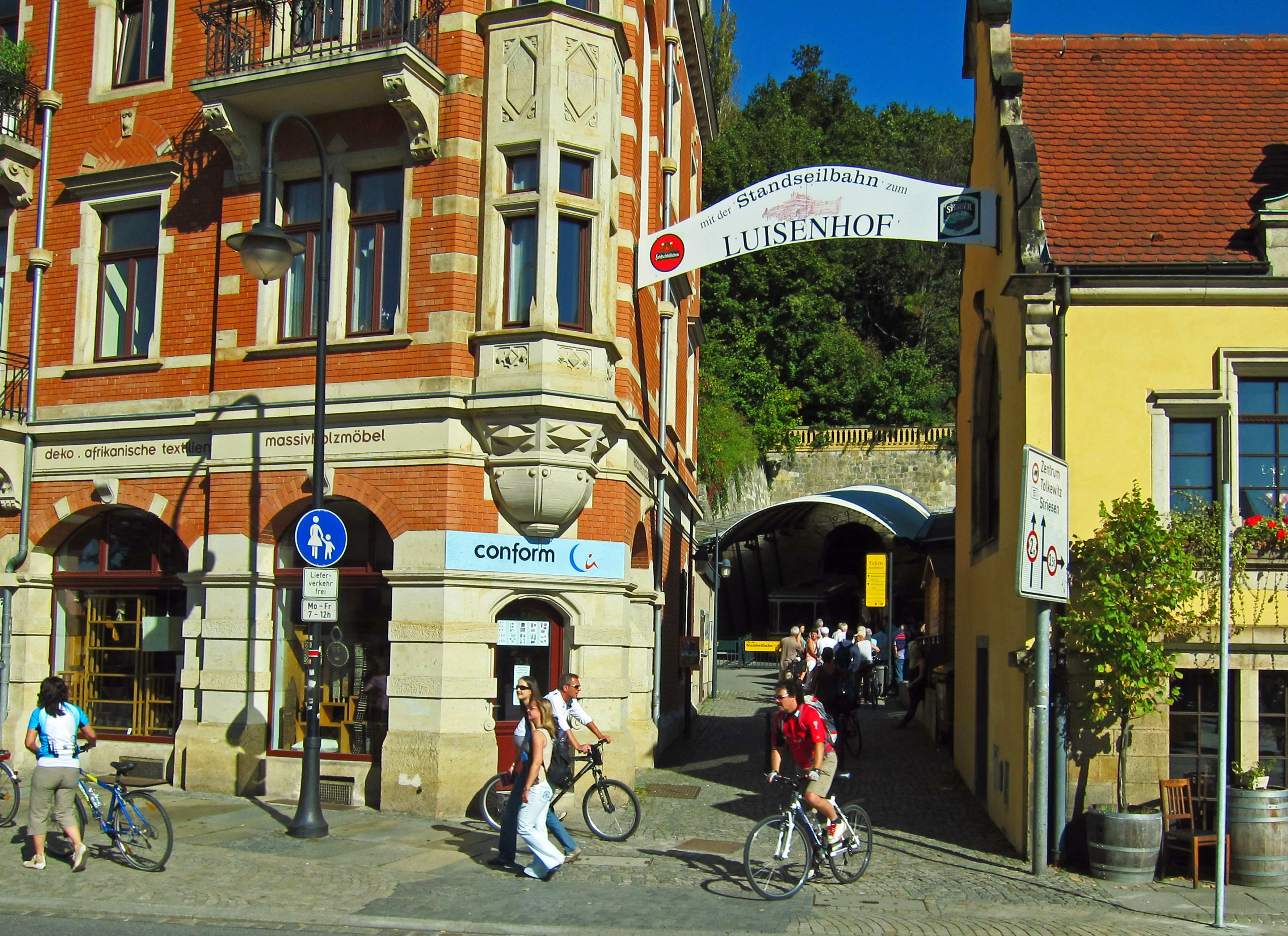 Entrance to the lower station of the Standseilbahn Dresden (Dresden Funicular Railway), built 1895.